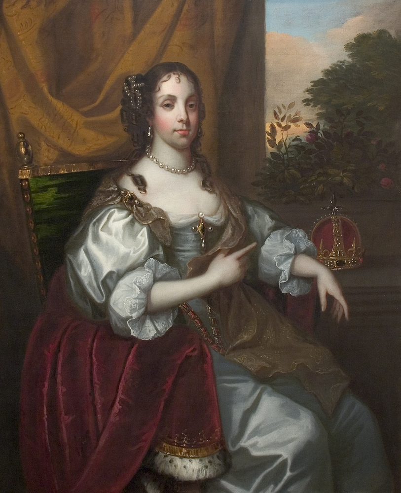 Catherine of Braganza, queen of England